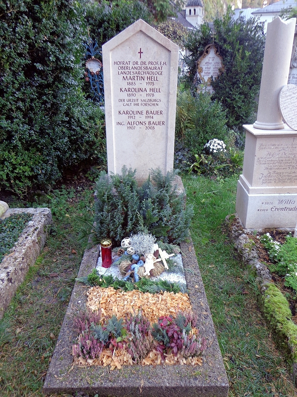 Petersfriedhof Salzburg: grave of Martin Hell and family